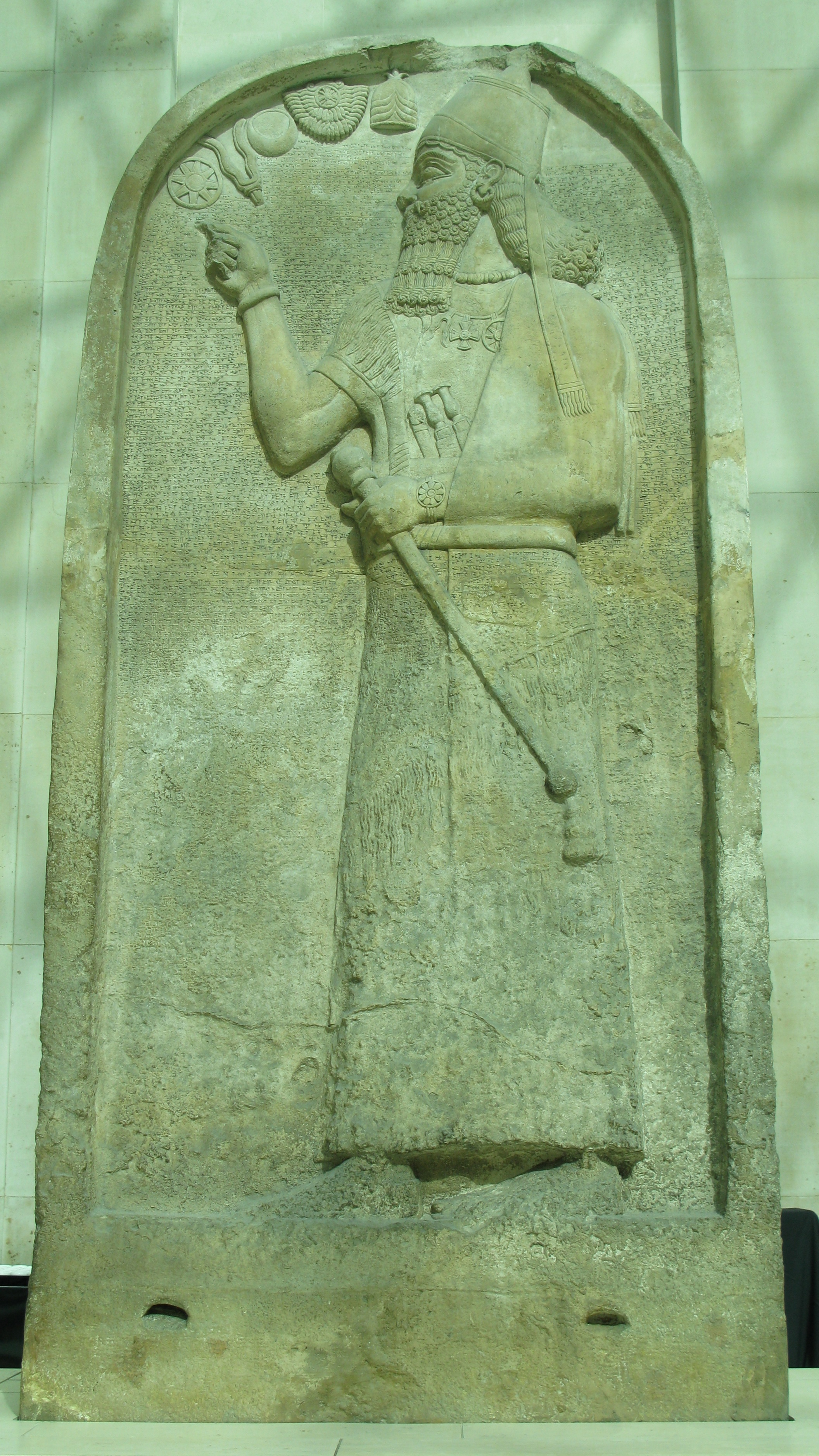 Photo of a stela of Ashurnasirpal II in the british museum